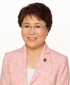 Parliamentary Secretary Mieko Kamimoto.